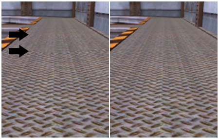 Difference between trilinear and bilinear filtering.